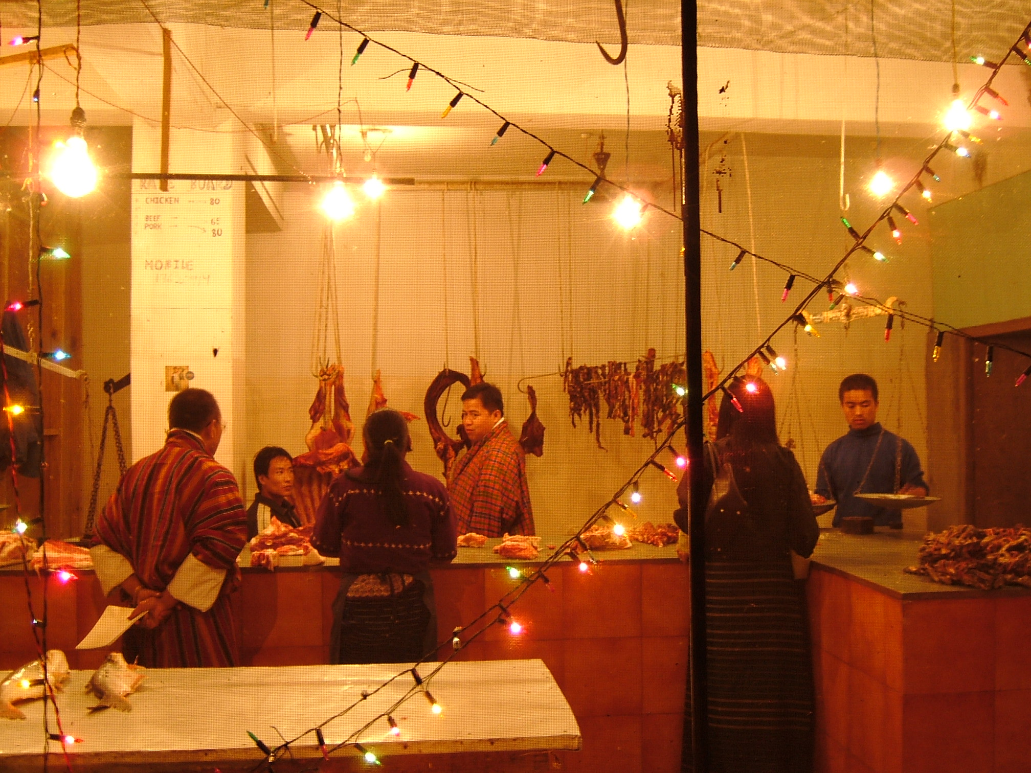 A butcher's shop in Thimphu, Bhutan